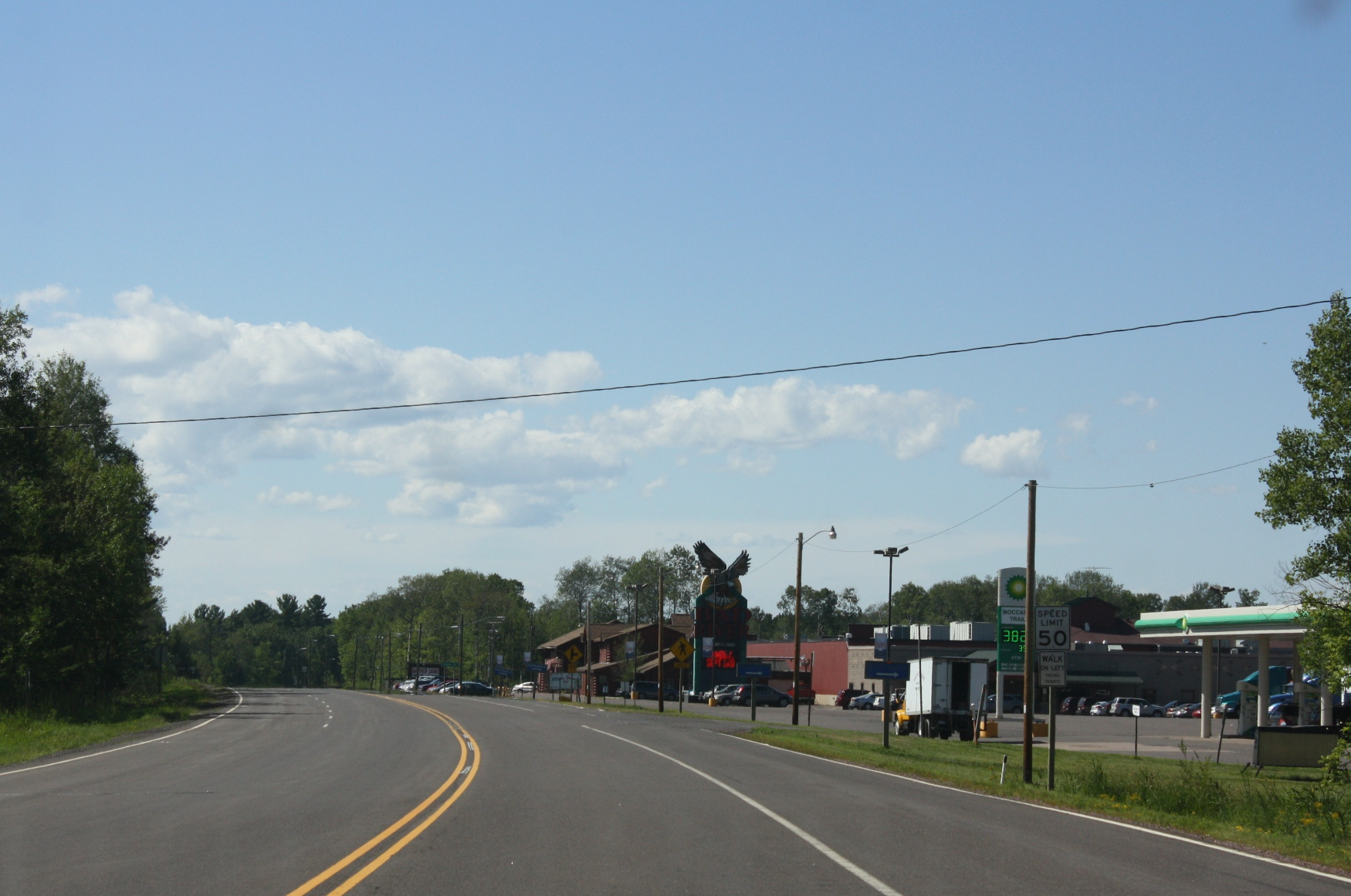 Looking west in Odanah, Wisconsin on U.S. Route 2.